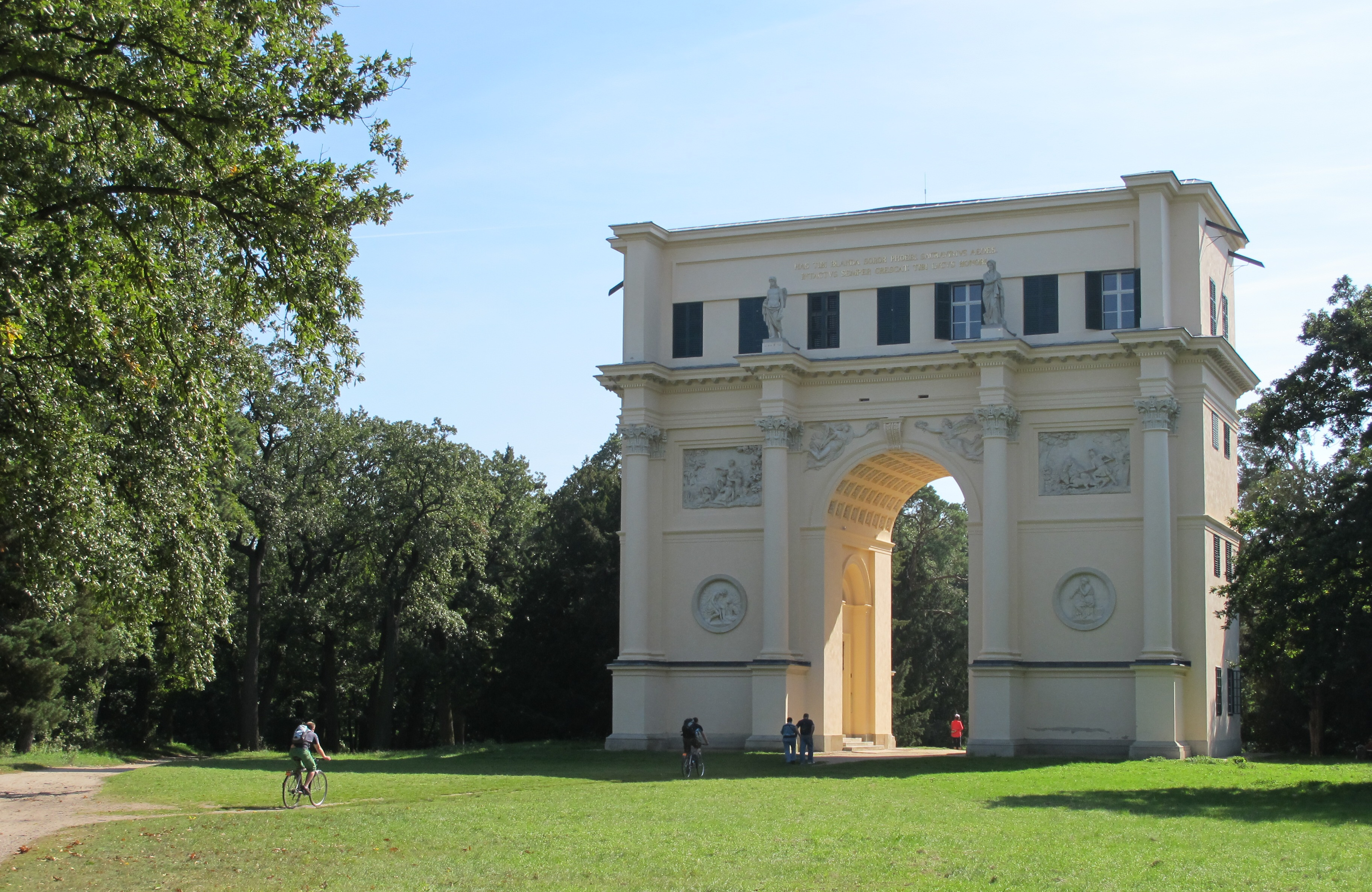 Building in national natural monument Rendezvous, Břeclav District